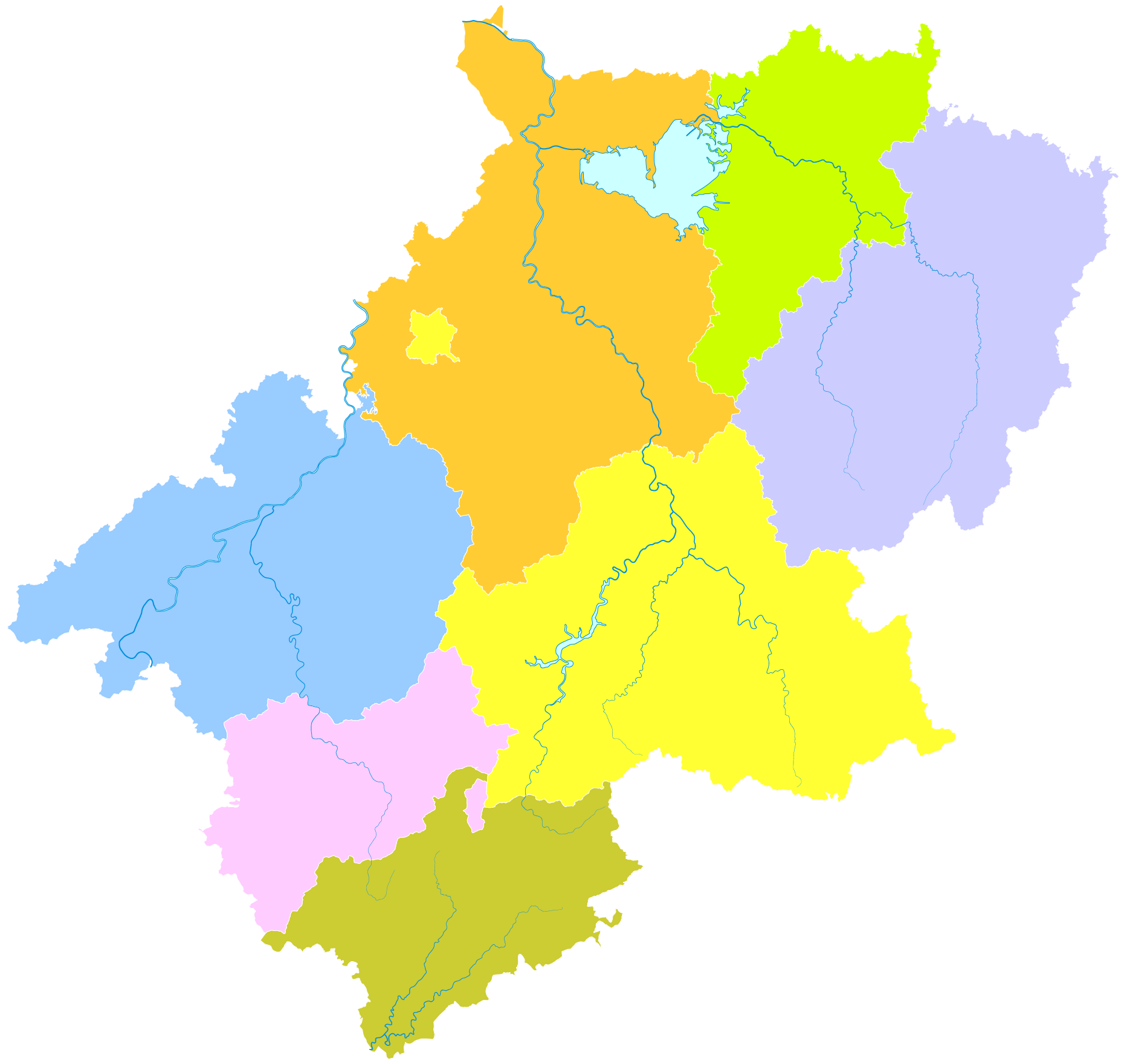 administrative divisions of Xuancheng City, Anhui, China